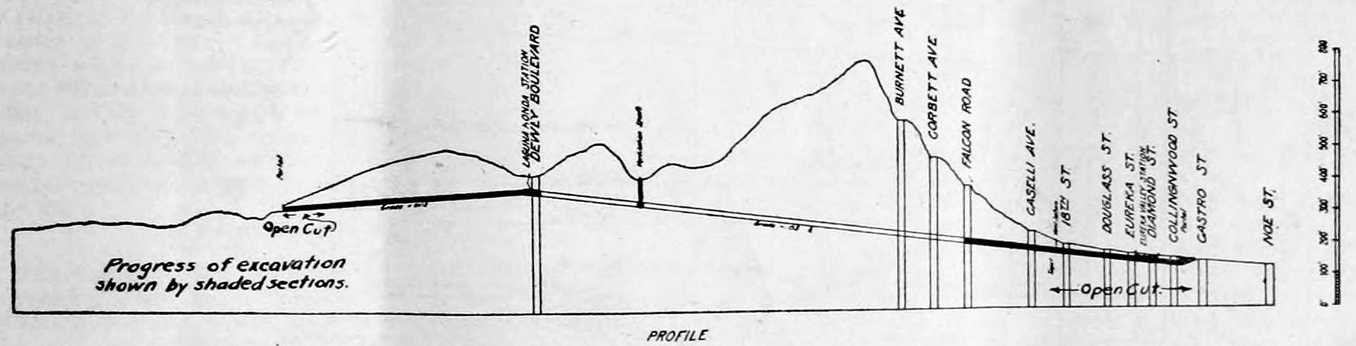 Caption: [Profile of the Twin Peaks Tunnel]